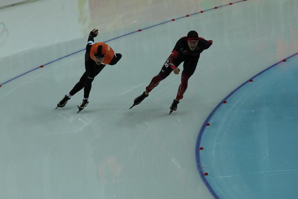 Men's 10000m, 2014 Winter Olympics, Bob de Jong & Alexej Baumgärtner